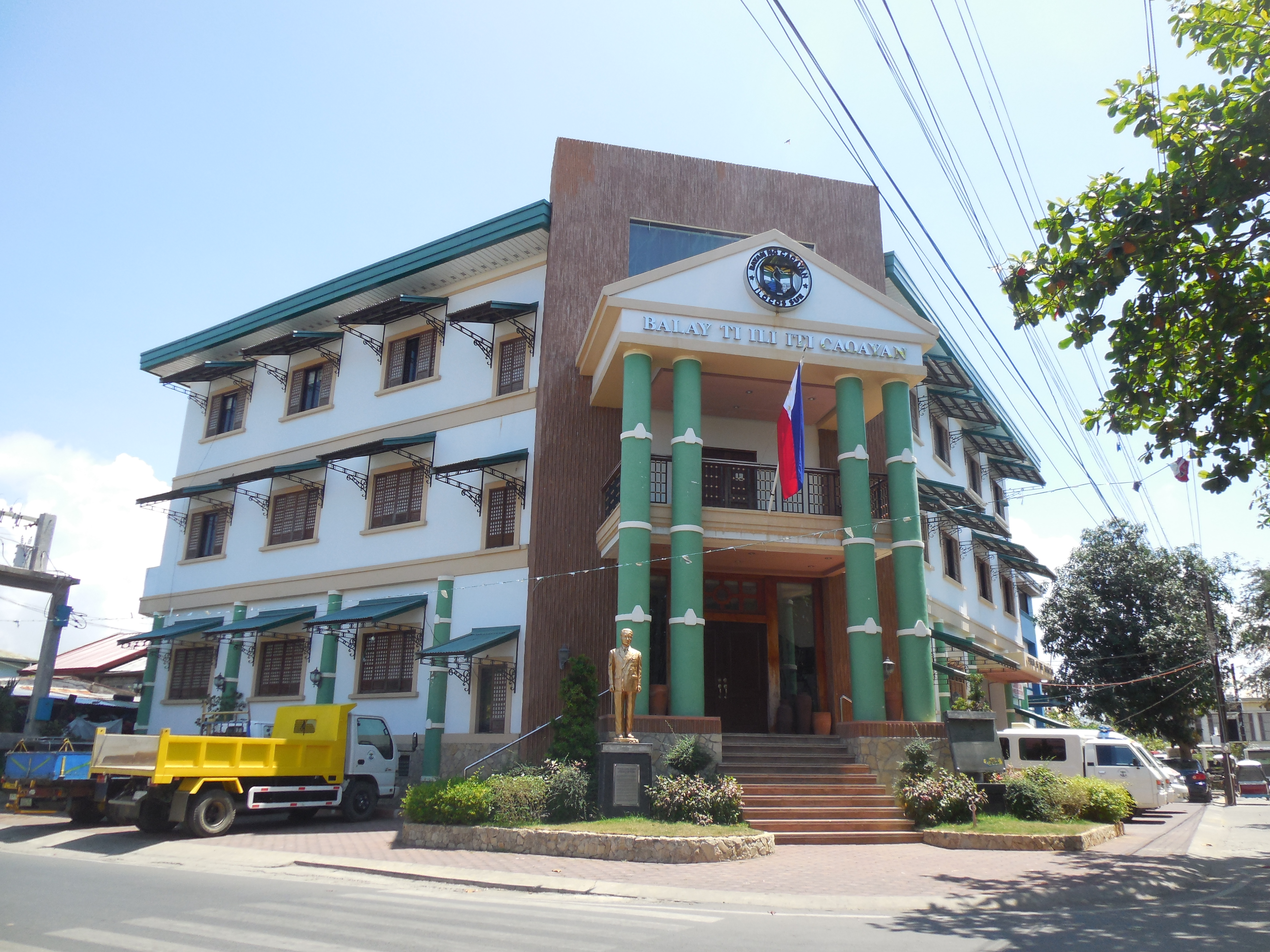 The town hall building of Caoayan, Ilocos Sur